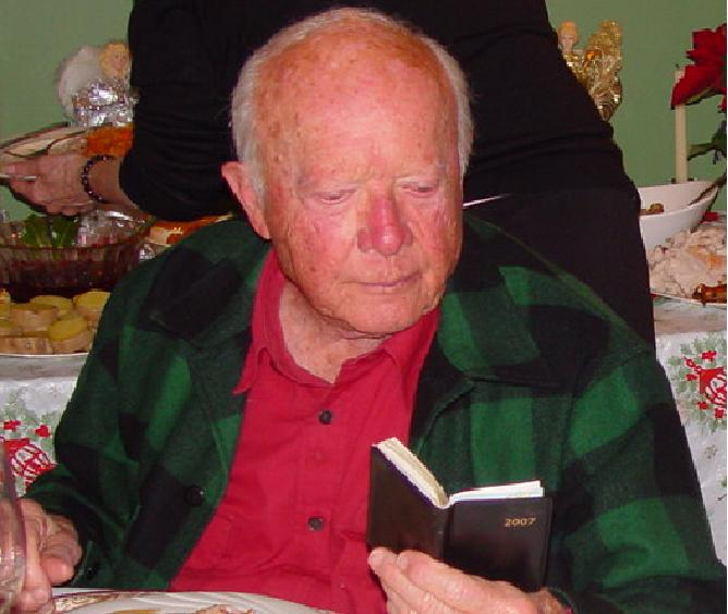 Dr. Andrew Benson, American biochemist